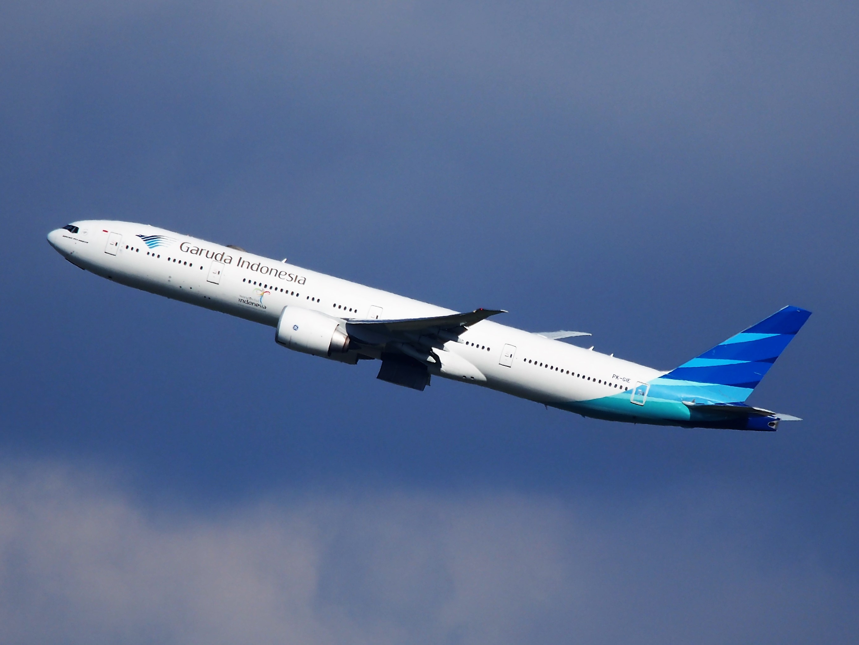 Photo taken at Schiphol (AMS - EHAM), The Netherlands.